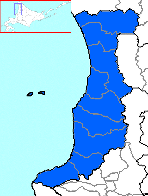 The map of Rumoi Subprefecture in Hokkaido Prefecture, Japan.